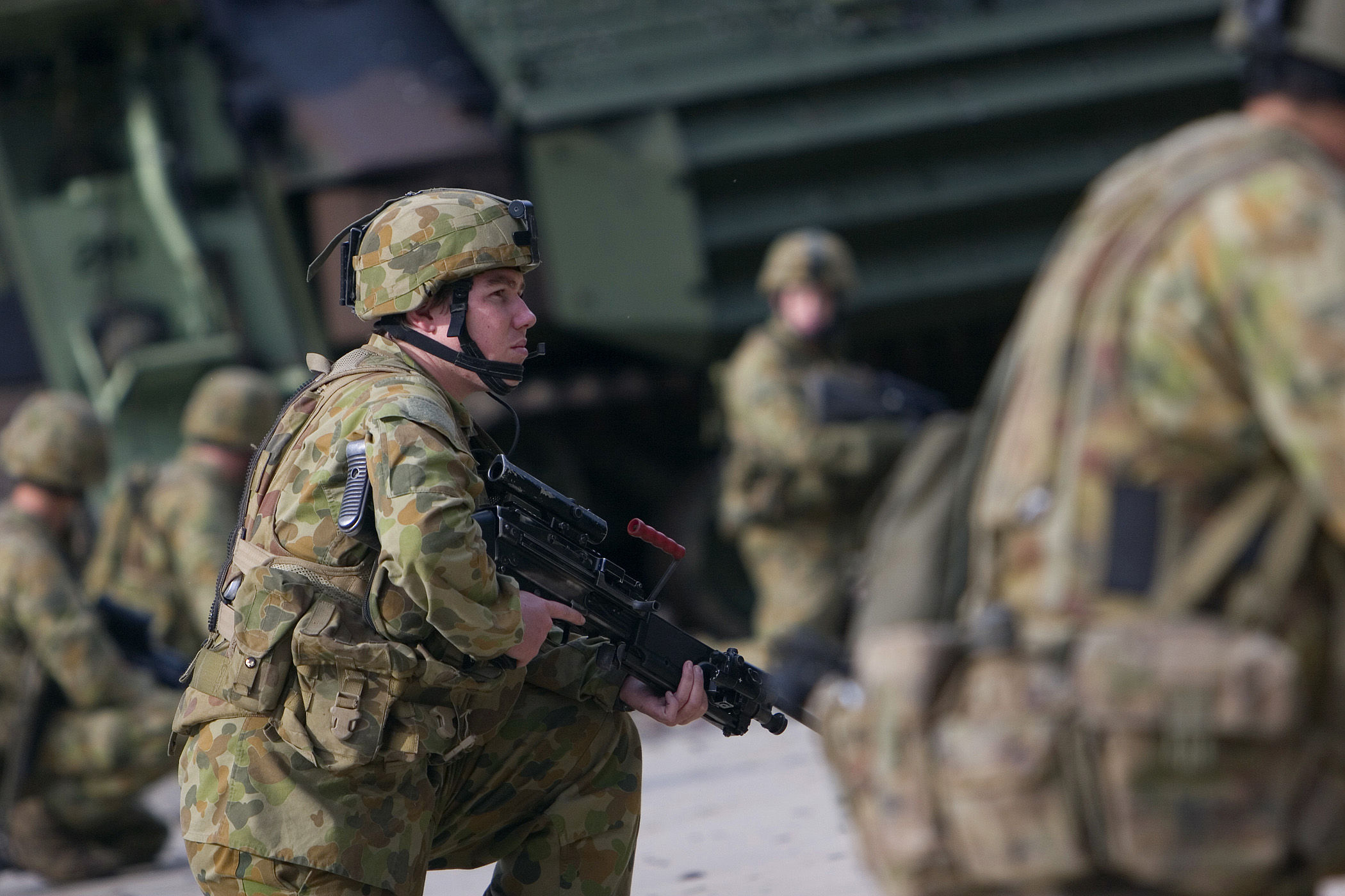 SHOALWATER BAY TRAINING AREA, QUEENSLAND, Australia – Soldiers of 2nd Battalion, Royal Australian Regiment, provide security for the Amphibian Assault Vehicles of the 3rd Marine Expeditionary Brigade’s 31st Marine Expeditionary Unit, at Fresh Water Bay here, June 18, during an amphibious assault rehearsal in support of Talisman Saber 2007. Talisman Saber is conducted to train Australian and U.S. joint task force and operations staff in crisis action planning for execution of contingency operations. The exercise also supports increased interoperability, flexibility and readiness in winning the Global War on Terror. Photo by: Corporal Kamran Sadaghiani Photo ID: 20076277340 Submitting Unit: 31st MEU Photo Date:06/17/2007